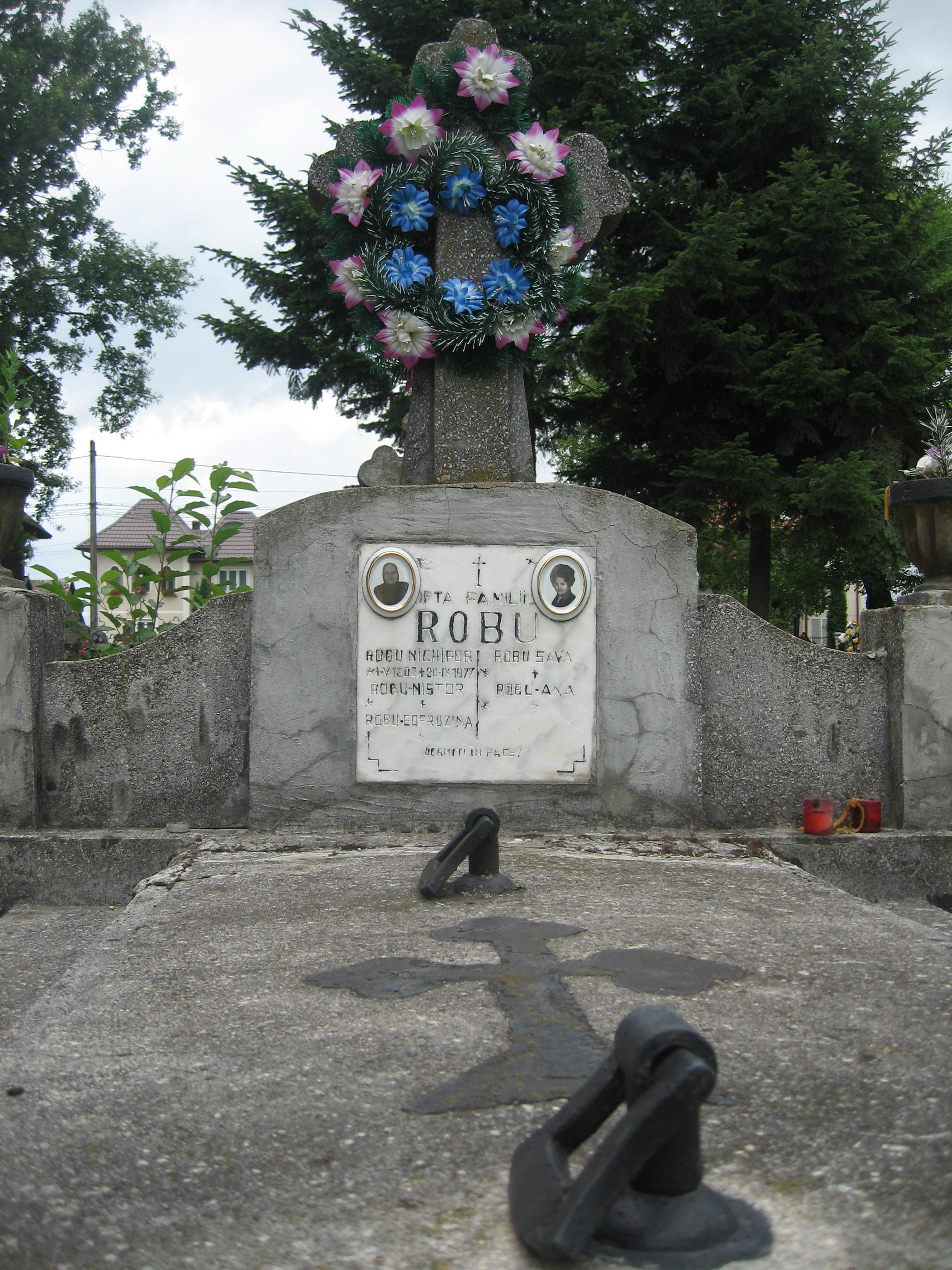 Biserica Înălţarea Sfintei Cruci din Volovăţ